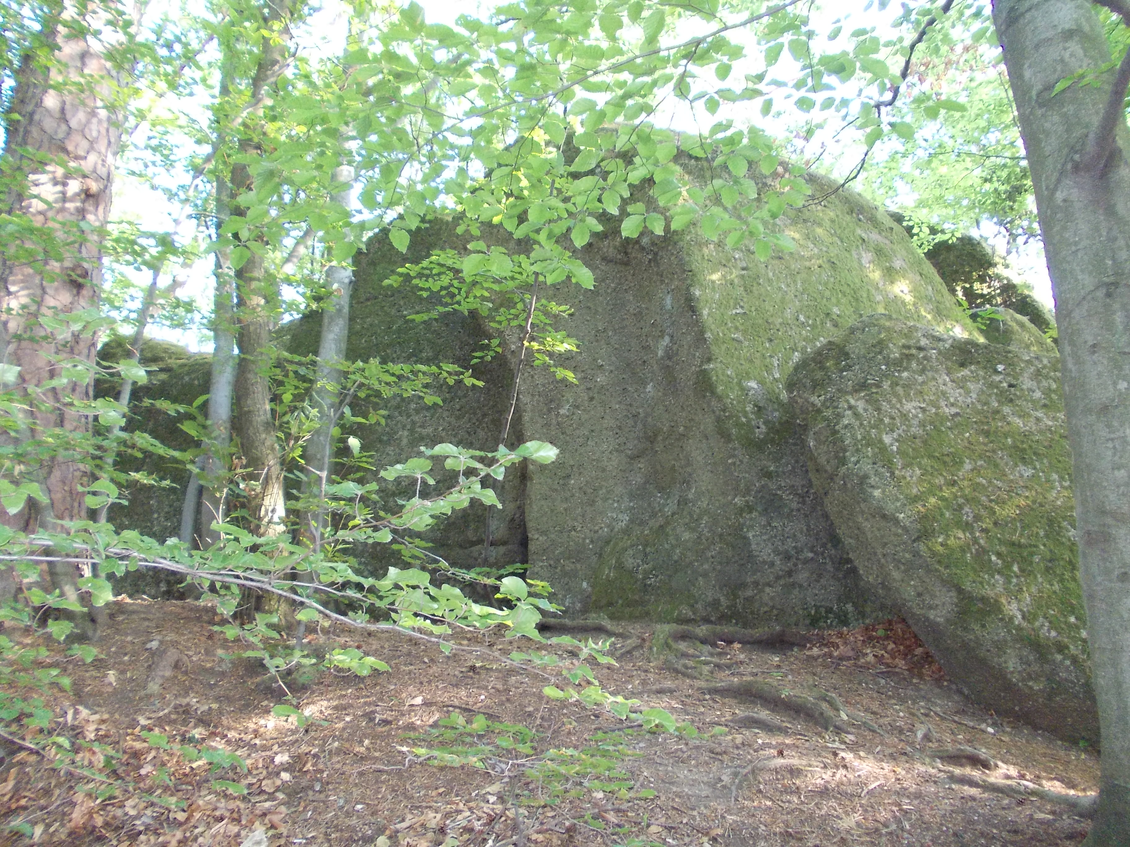 Hudičeve skale